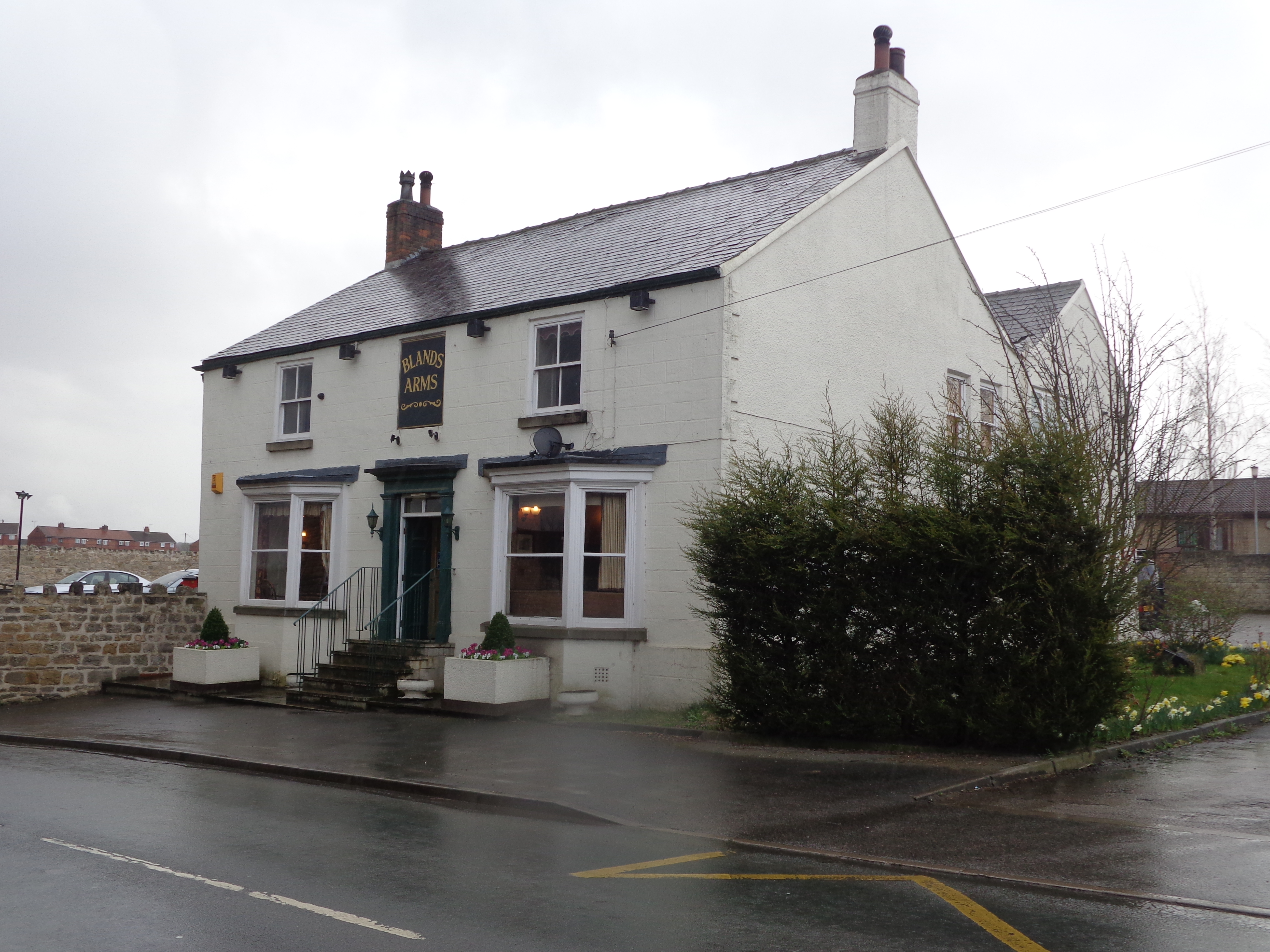 Blands Arms, Great North Road, Micklefield, Leeds, West Yorkshire. Taken on the afternoon of Saturday the 22nd of March 2014.